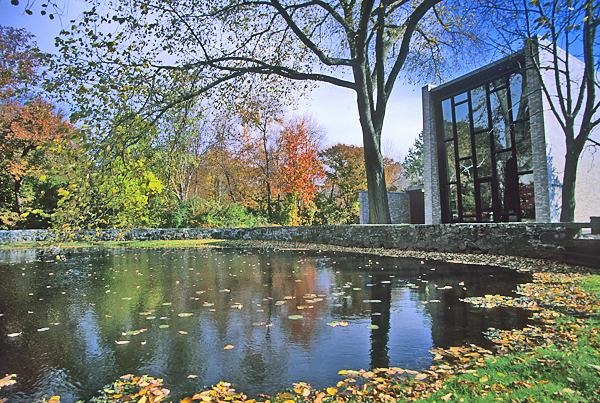 Chapels Pond, Brandeis University, Waltham, Massachusetts.